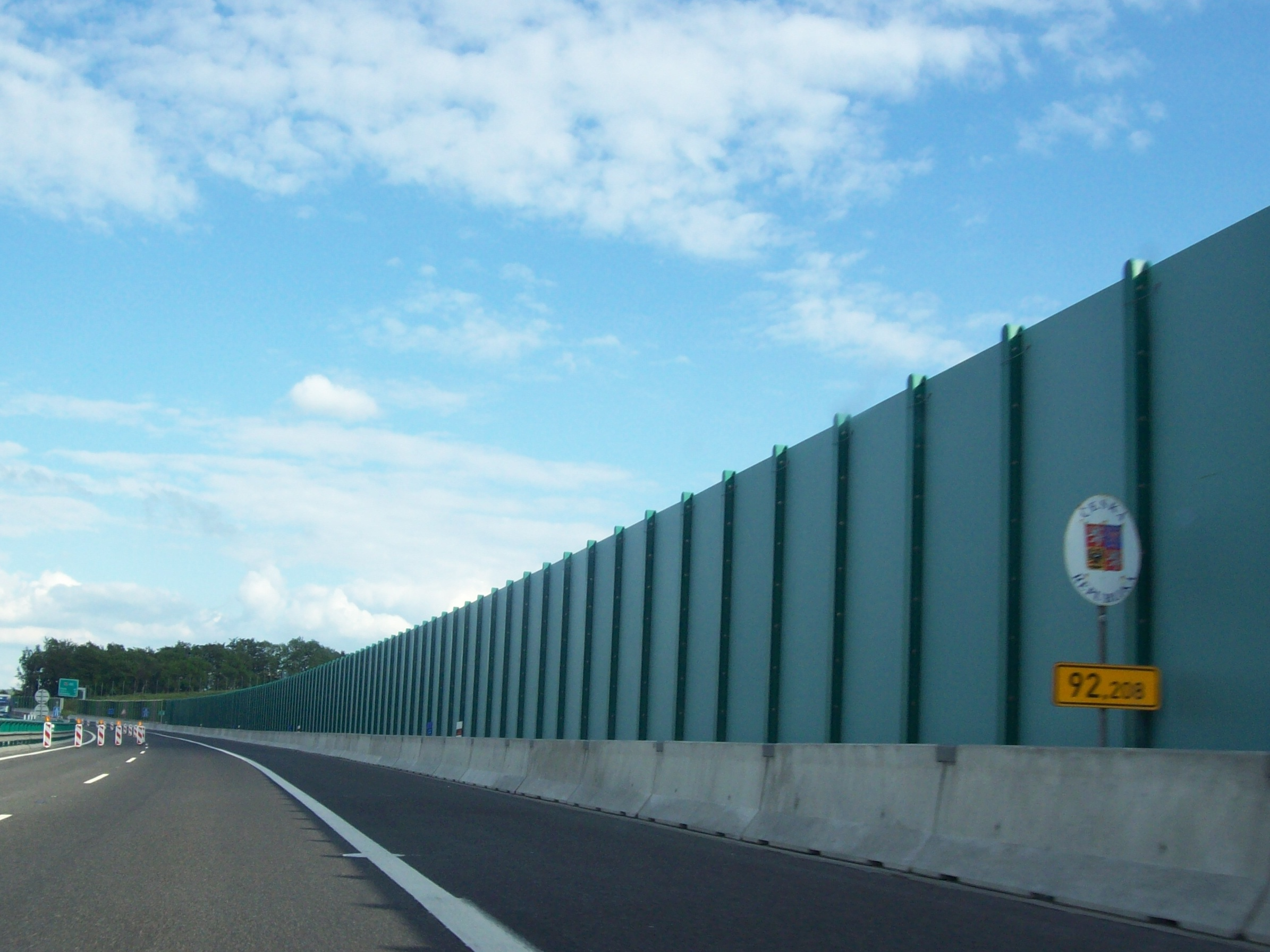 Germany-Czech state border, higways A17 - D8